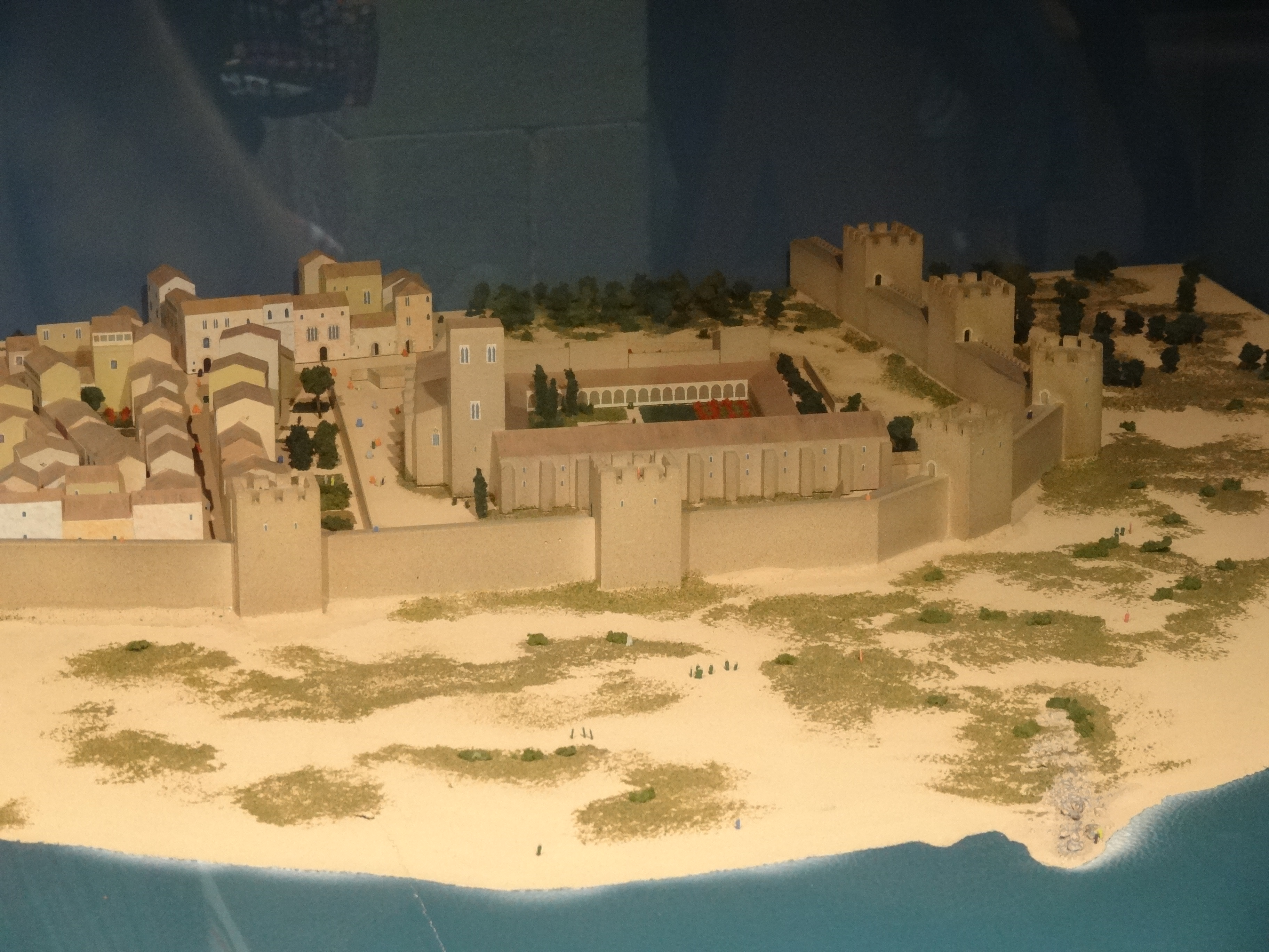 Scale model of the old Barcelona city front, at the Museu Marítim